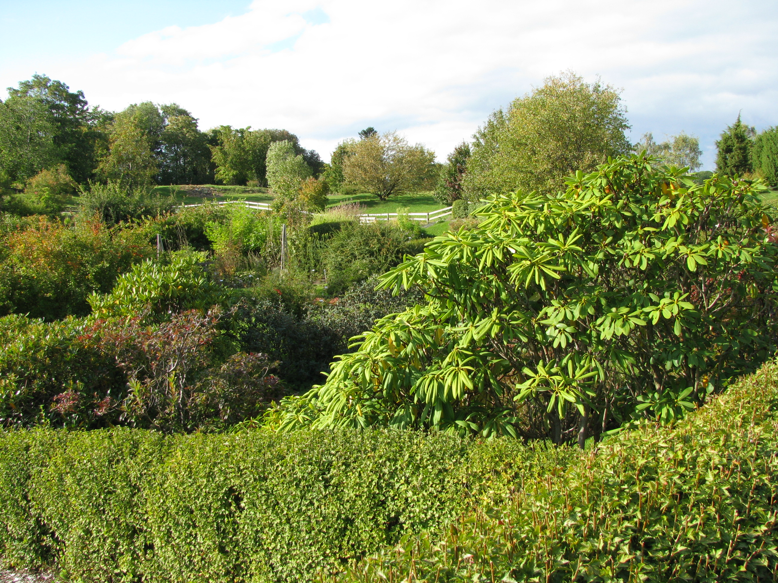 Ringve Botanical Garden, section with a Rhododendron shrub (right) — in Trondheim, Norway. 13 September 2008.